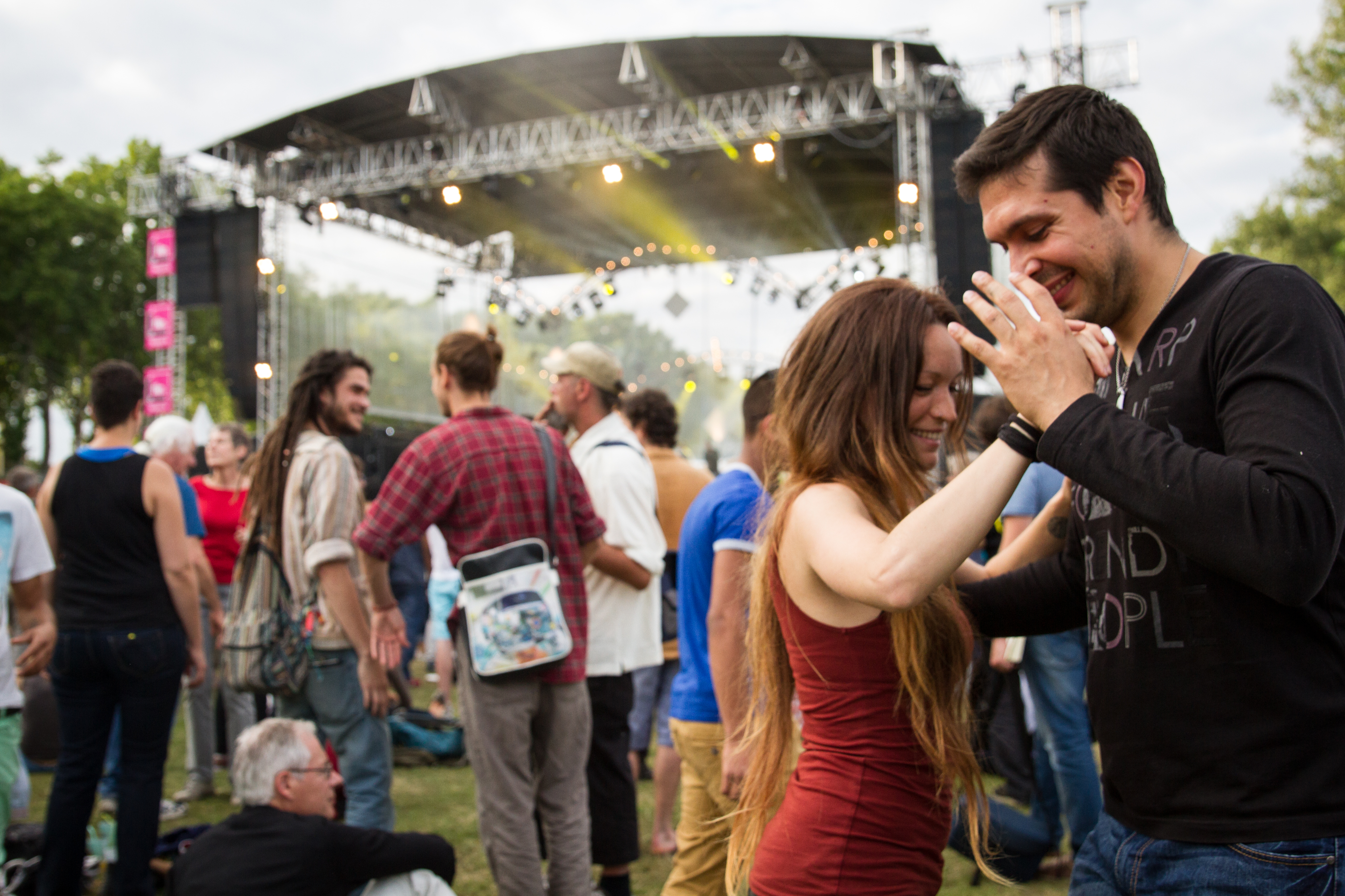 People at Rio Loco 2015